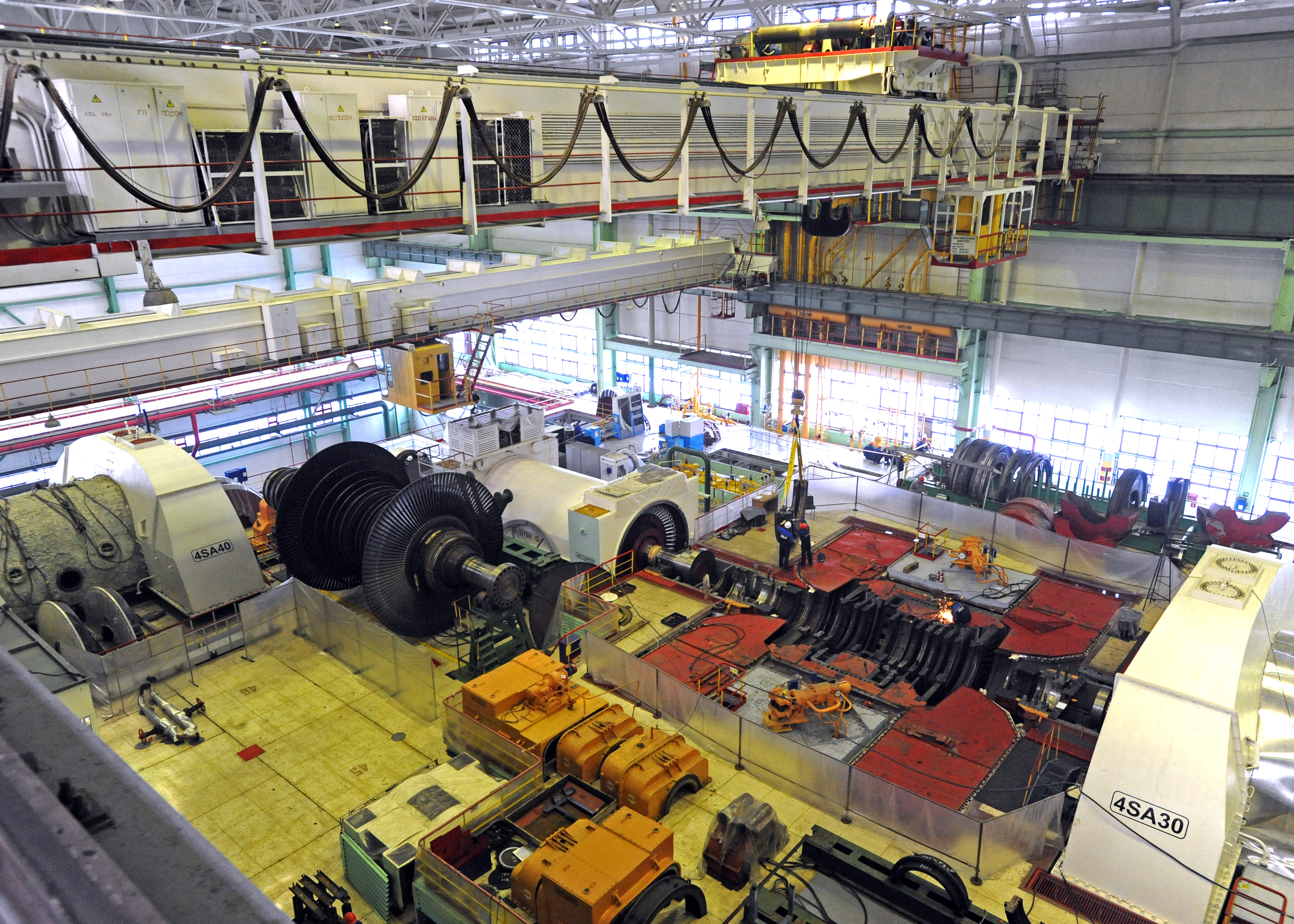 Maintenance of a steam turbine at the Balakovo Nuclear Power Plant